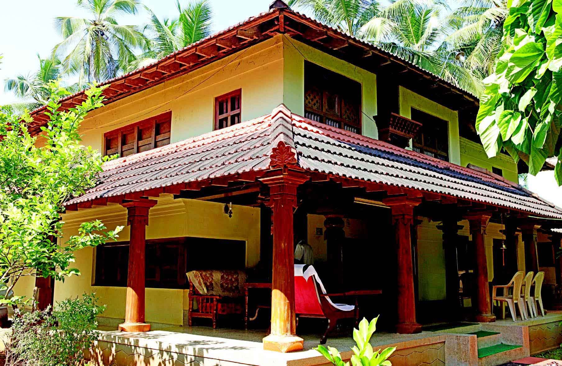 Edathola House